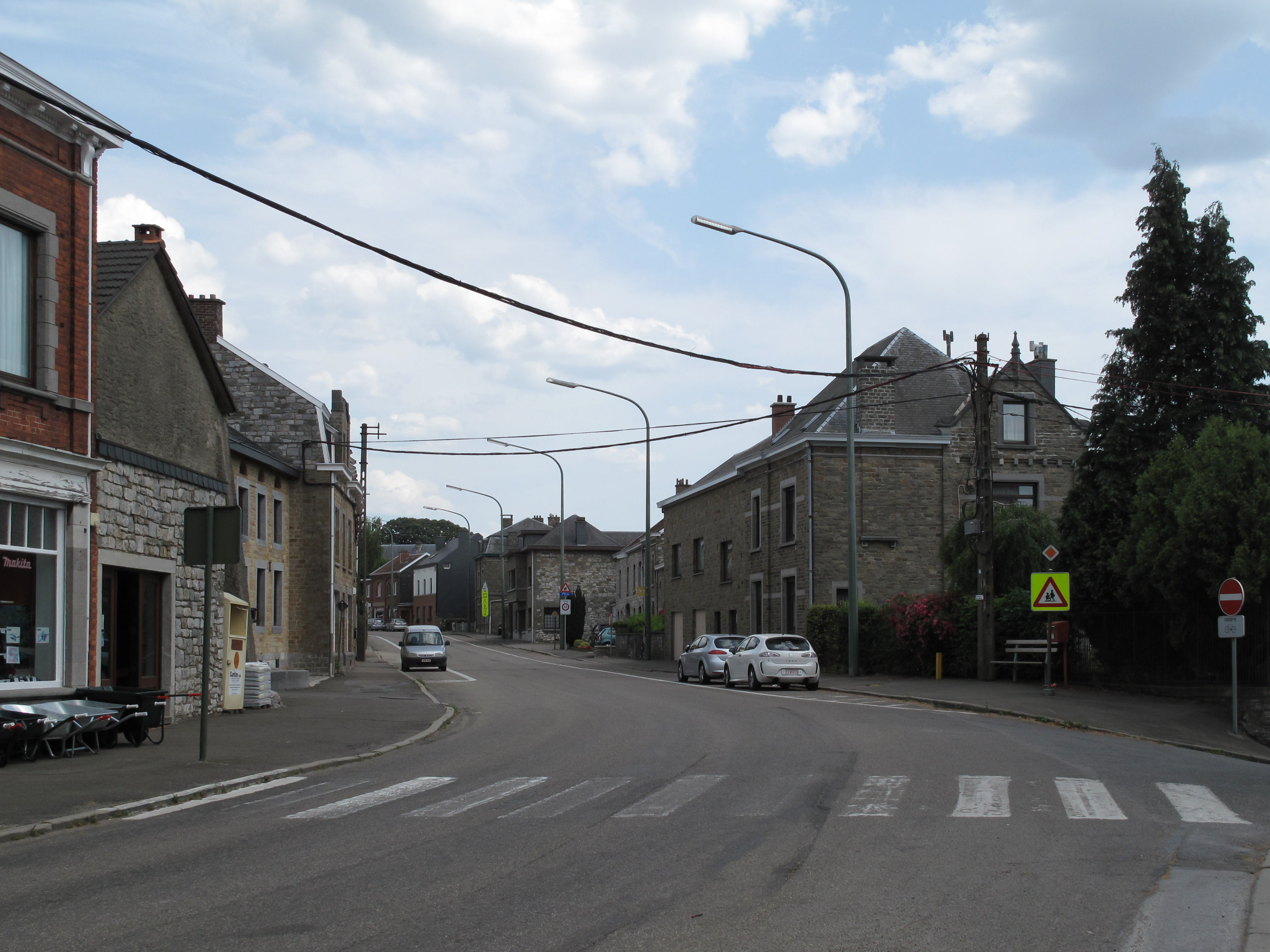 Louveigne, view to a street